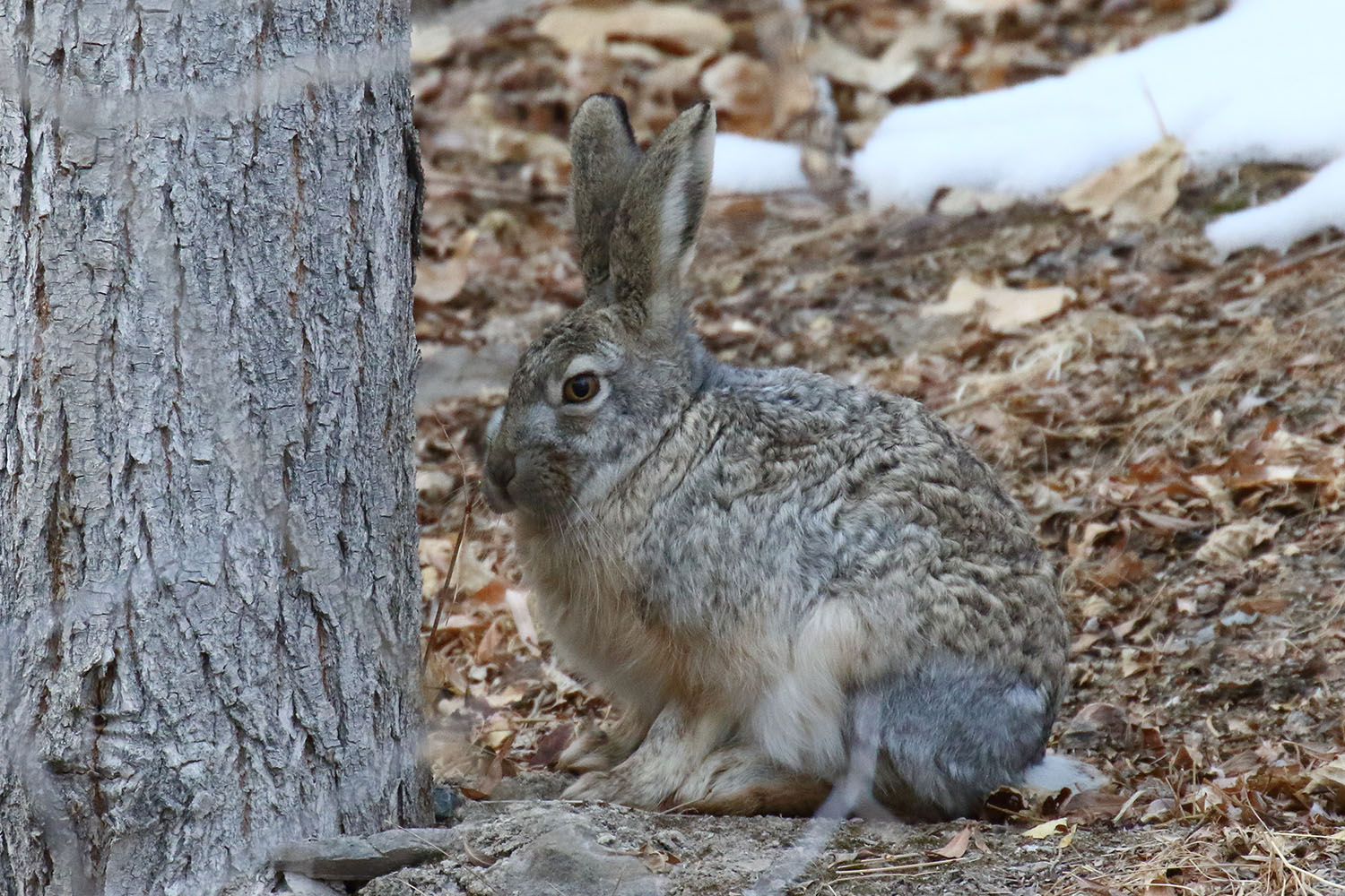 Woolly hare (Lepus oiostolus), Ladakh, India